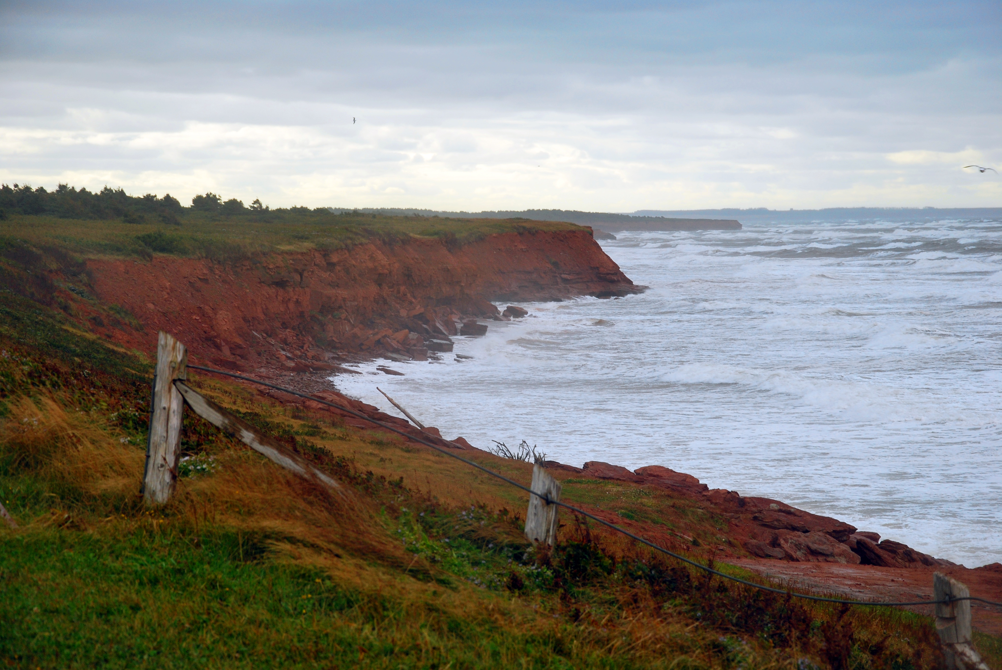 Prince Edward Island's South Shore red cliffs 2009 Canada